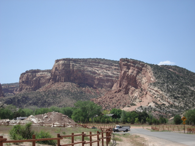 Monocline at Colorado National Monument. The strata lie parallel to the ground surface in the valley floor, angle up and resume a parallel position atop the mountain.